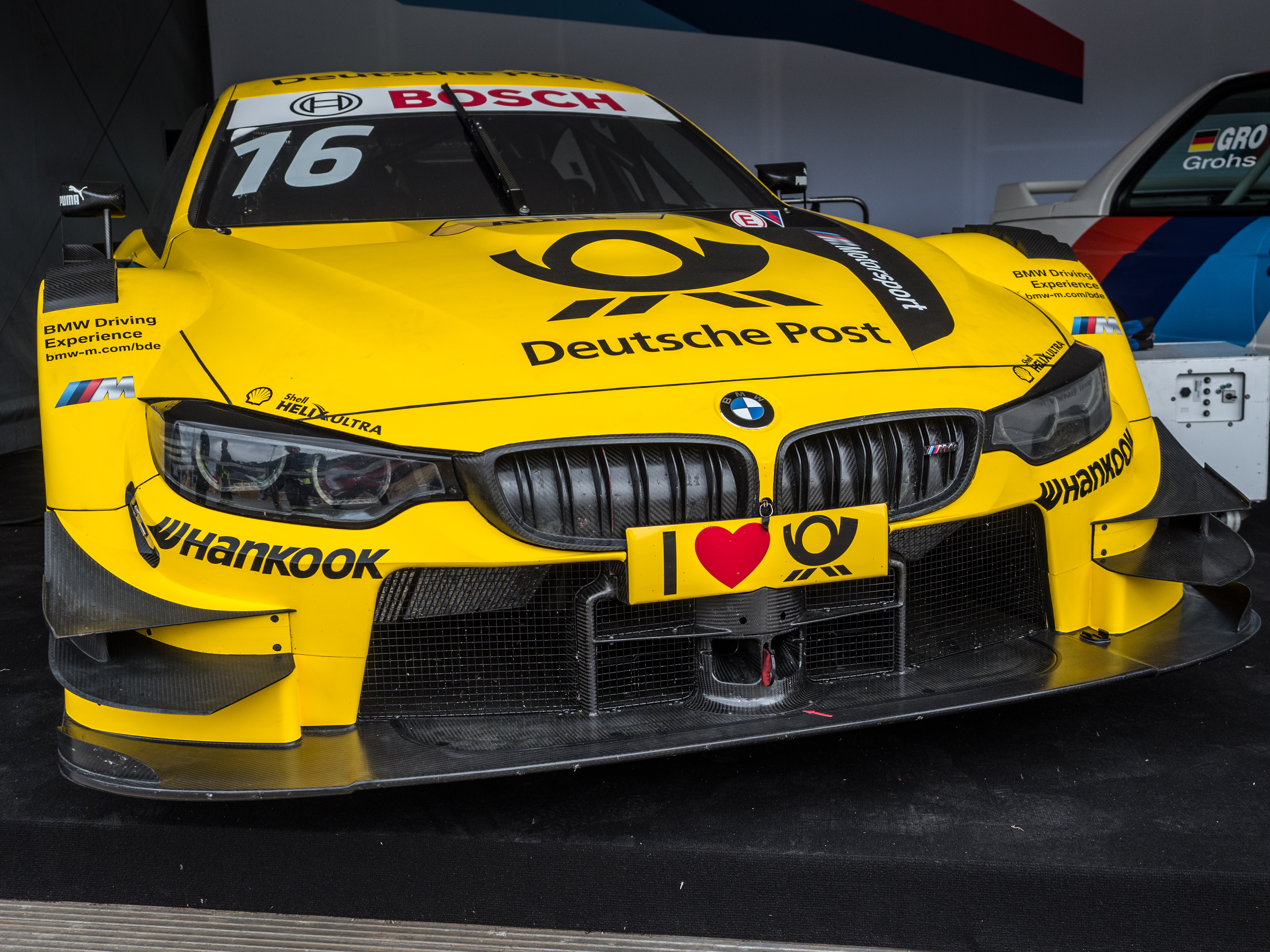 BMW M4 DTM 2018 of Timo Glock in Norisring 2018.